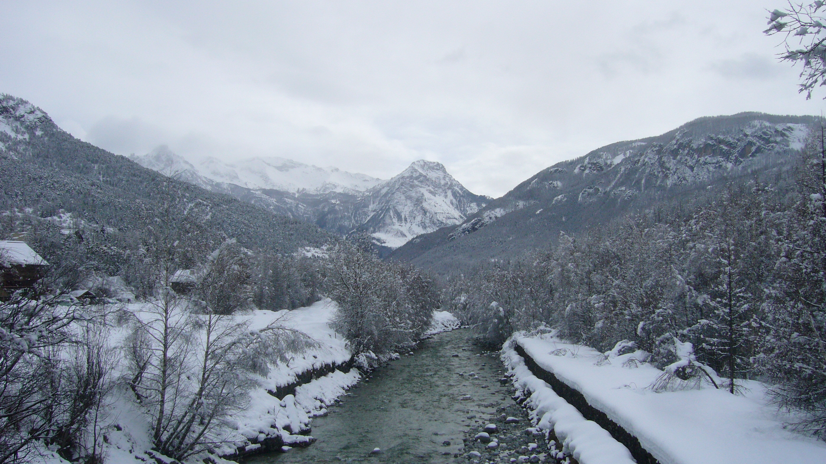 Vallouise (en occitan alpin: Vauloïsa; Viera [ˈvjeːrɔ] pour le centre) est une commune française, située dans le département des Hautes-Alpes et la région Provence-Alpes-Côte d'Azur. Ses habitants s'appellent les vallouisiens". Elle abrite la station de sports d'hiver de Pelvoux-Vallouise : 14 pistes, 34 kilomètres de pistes. Elle possède également un centre de ski de fond agglomérant prés d'une trentaine de kilometres de pistes dans la vallée de l'Onde.